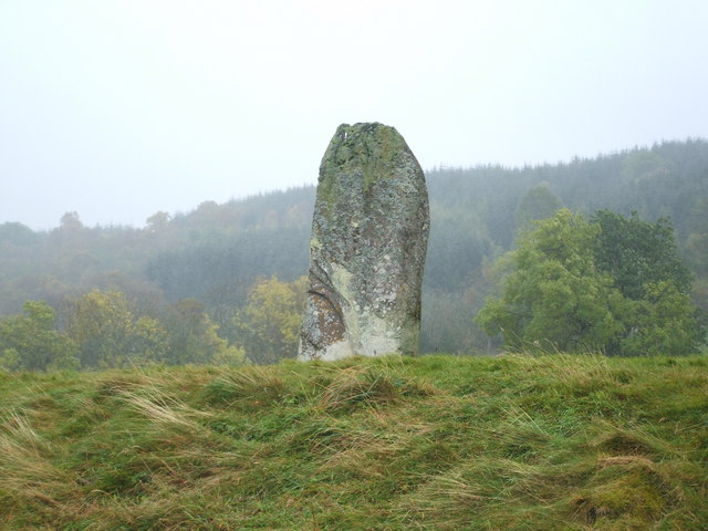 Auchingarrich Standing Stone Known locally as the Roman Stone, and "supposed to mark the grave of one of the heroes who fell at the battle of [Mons Graupius]", this stone is over 8 feet tall, and bears some cup markings on its surface; It stands very close to Auchingarrich Wildlife Centre. There are many cairns and standing stones here in the valley of the River Earn, and, in its role as a monument, the stone is probably about 4000 years old, or twice as old as folklore would have it. A plaque near the stone provides more information about the site.